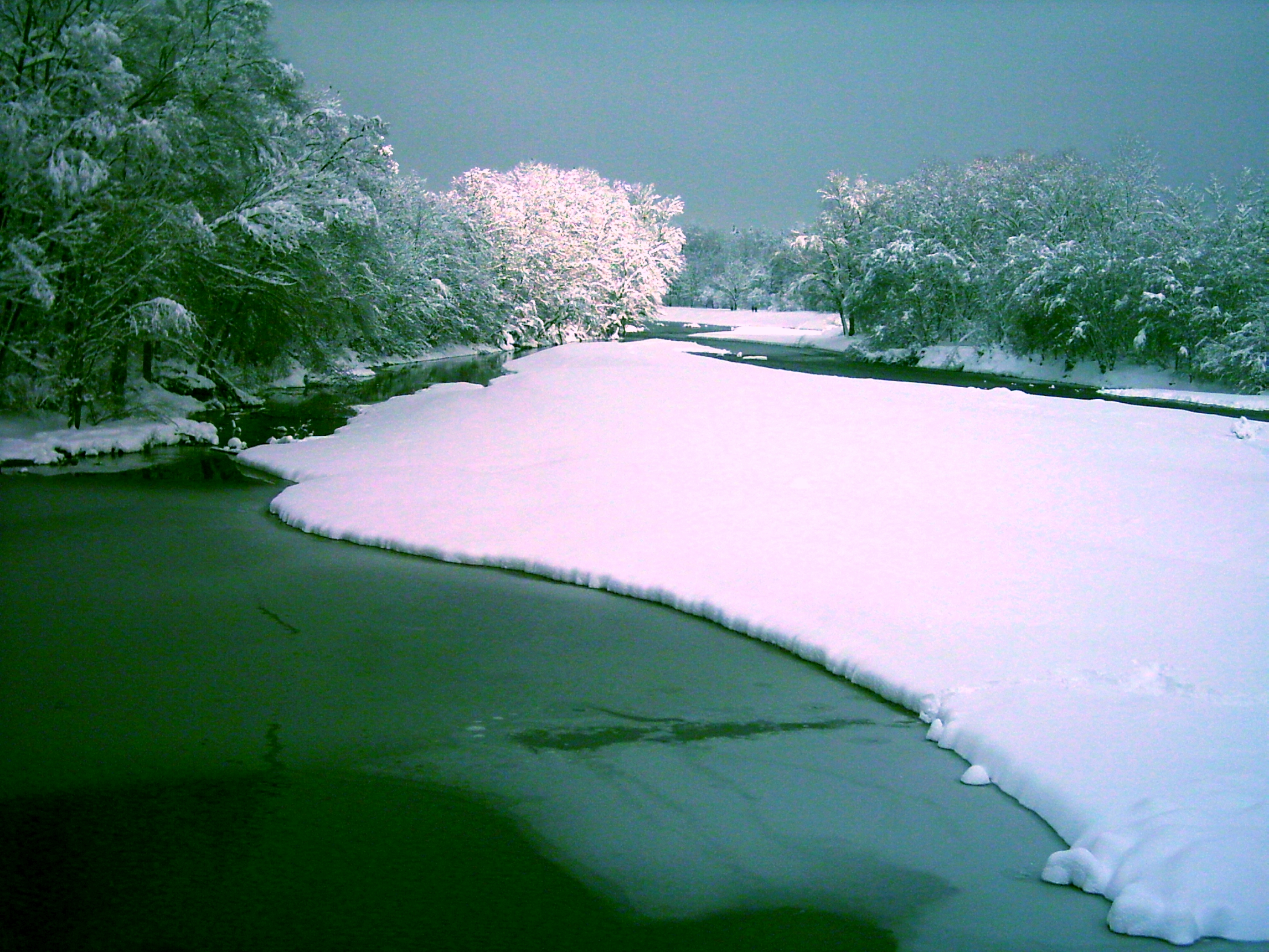 Winter impression of Flaucher area at river Isar in the southern part of Munich: Isar below the barrages.